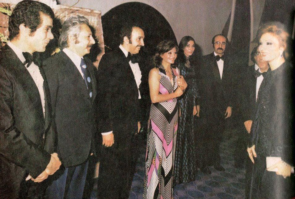 From left: Behrouz Vossoughi, Jamshid Mashayekhi, Bahman Farman Ara, Fakhri Khorvash, Parvaneh Masoumi and Kamran Shirdel while meeting Farah Pahlavi in Iran